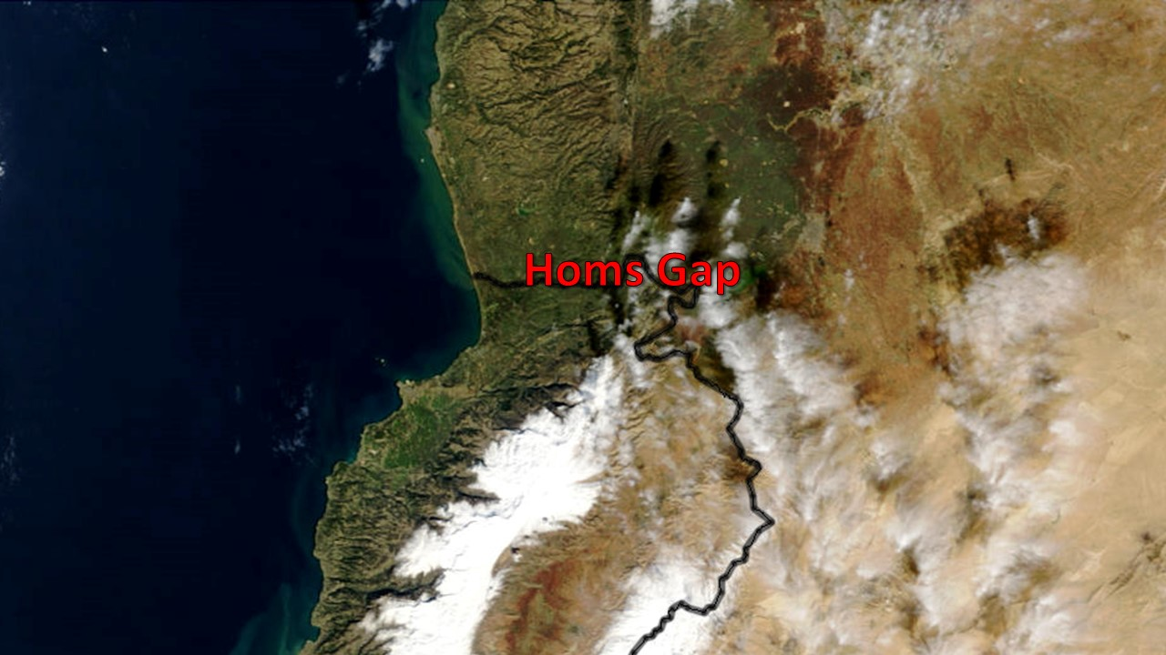 A cropped and labeled version of File:MiddleEast.A2003031.0820.250m.jpg, highlighting the Hims Gap.